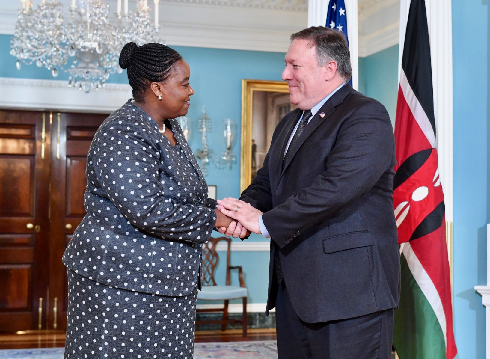 U.S. Secretary of State Michael R. Pompeo welcomes Kenyan Cabinet Secretary for Foreign Affairs and International Trade Monica Juma to the U.S. Department of State in Washington, D.C.